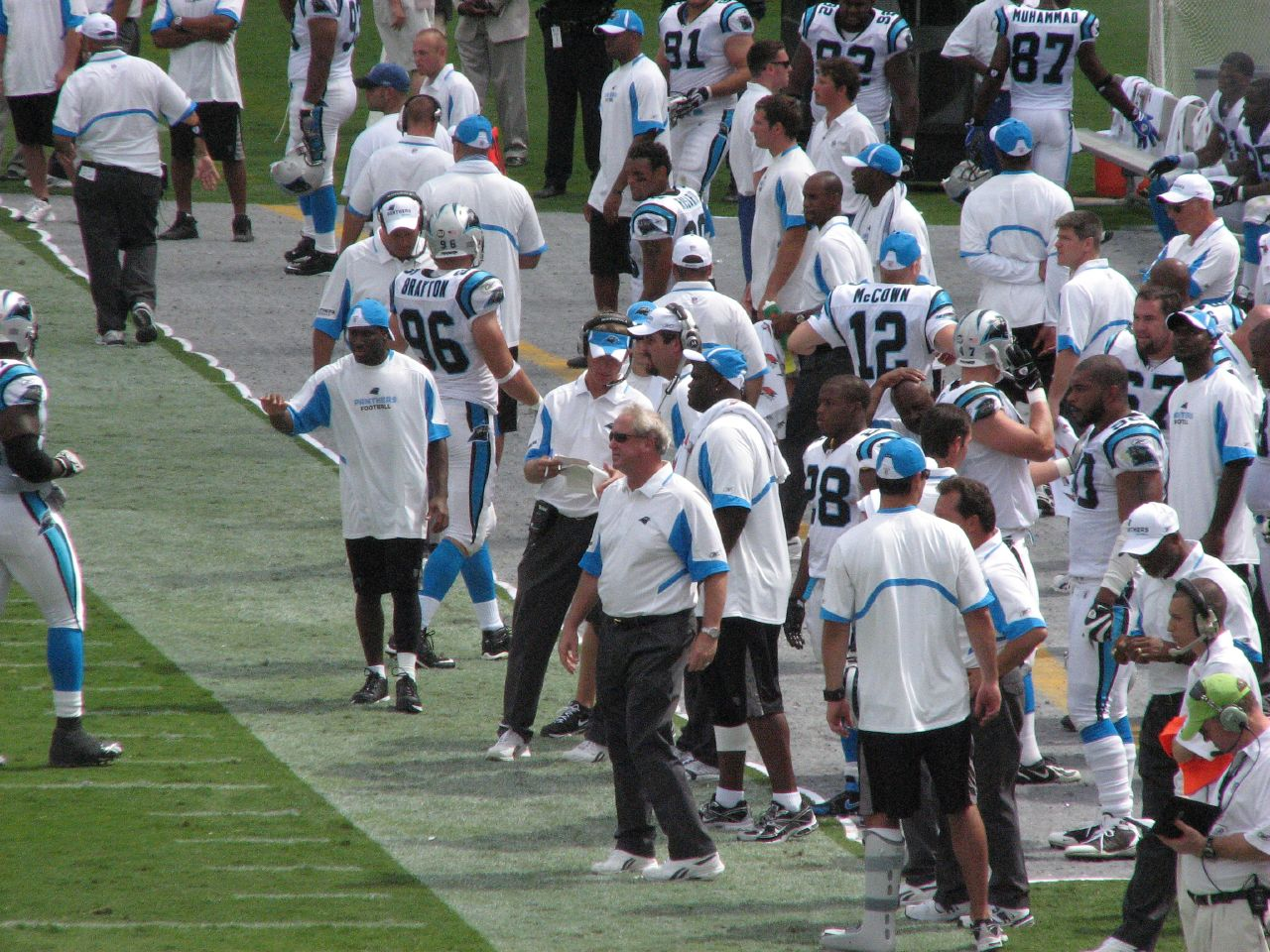 Carolina Panthers players (2008 roster) on Sideline